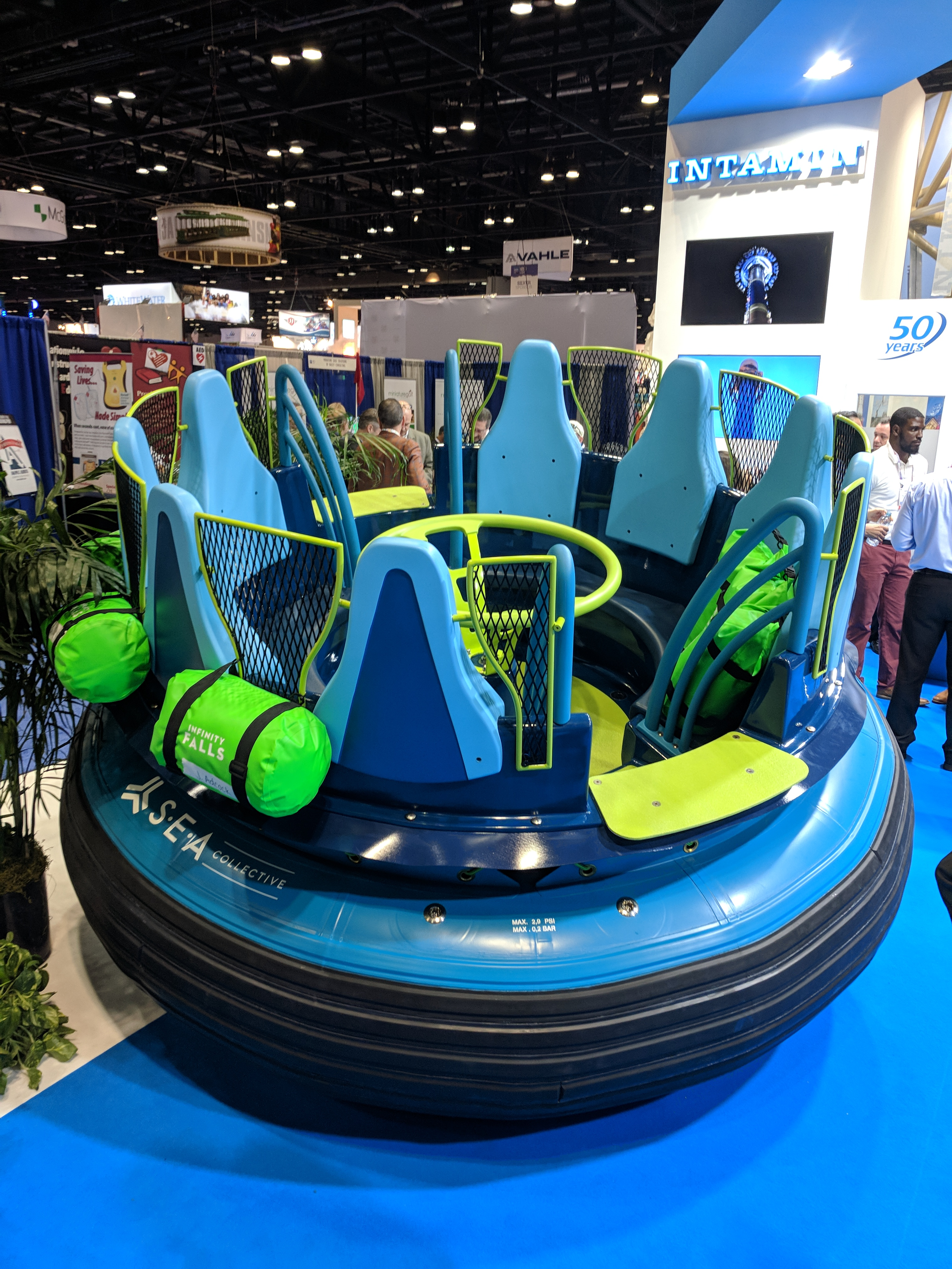 Raft for the Infinity Falls ride that will be at SeaWorld Orlando at the Intamin booth at IAAPA IAE 2017 Note: In accordance with IAAPA IAE rules, permission was granted from the exhibitor to take this photograph and publish it for use on Wikipedia.